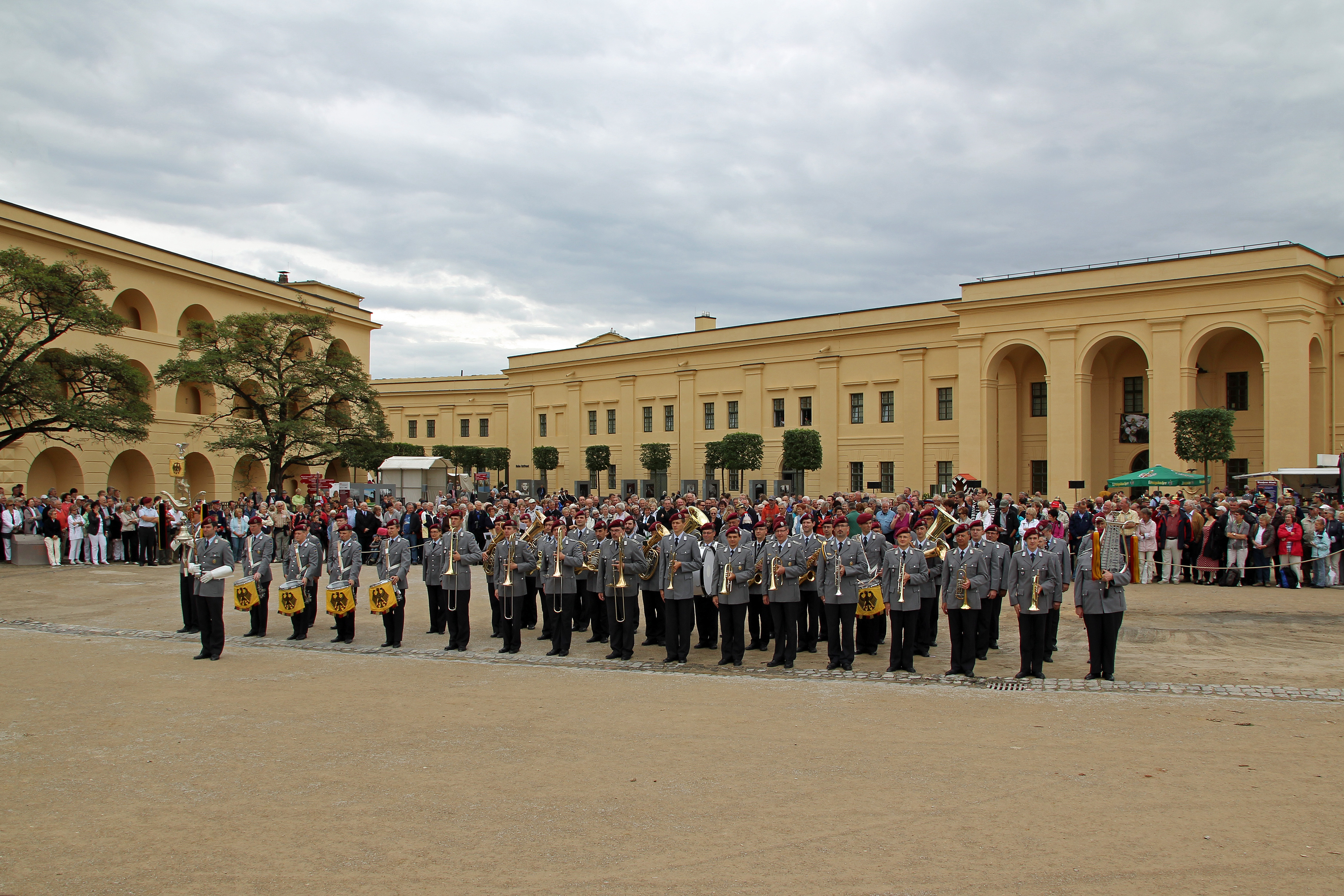 Heeresmusikkorps 300 (German Army Band 300) at the Federal Horticultural Show 2011 in Koblenz, Germany